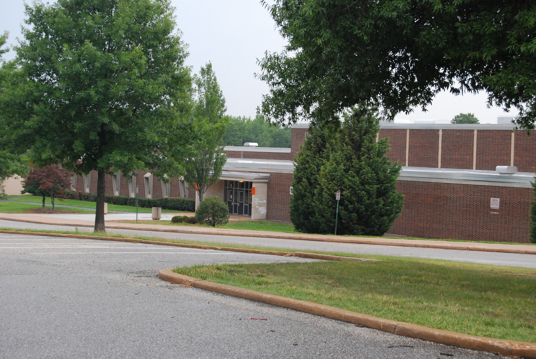 Eastern Technical High School